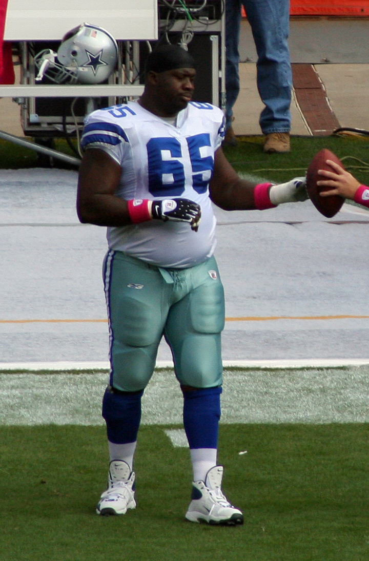 Andre Gurode, number 65, a player of the Dallas Cowboys American football team.